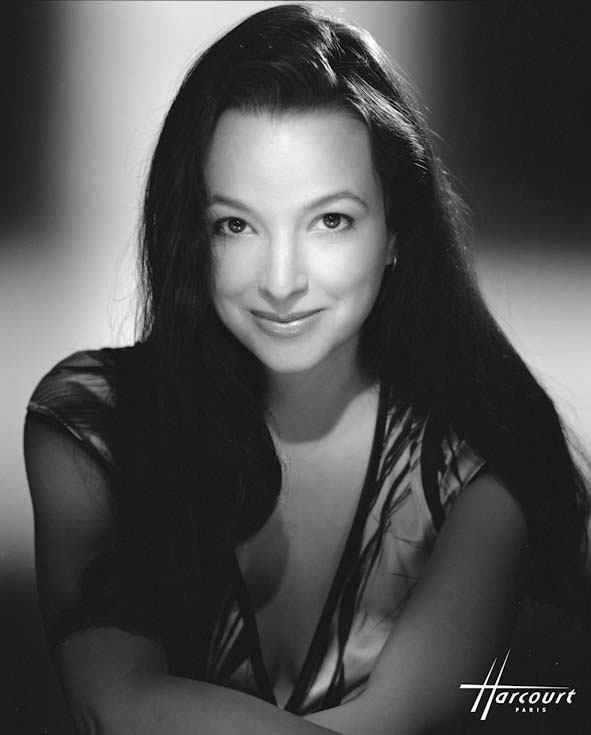 Eliette Abecassis photographed by Studio Harcourt Paris